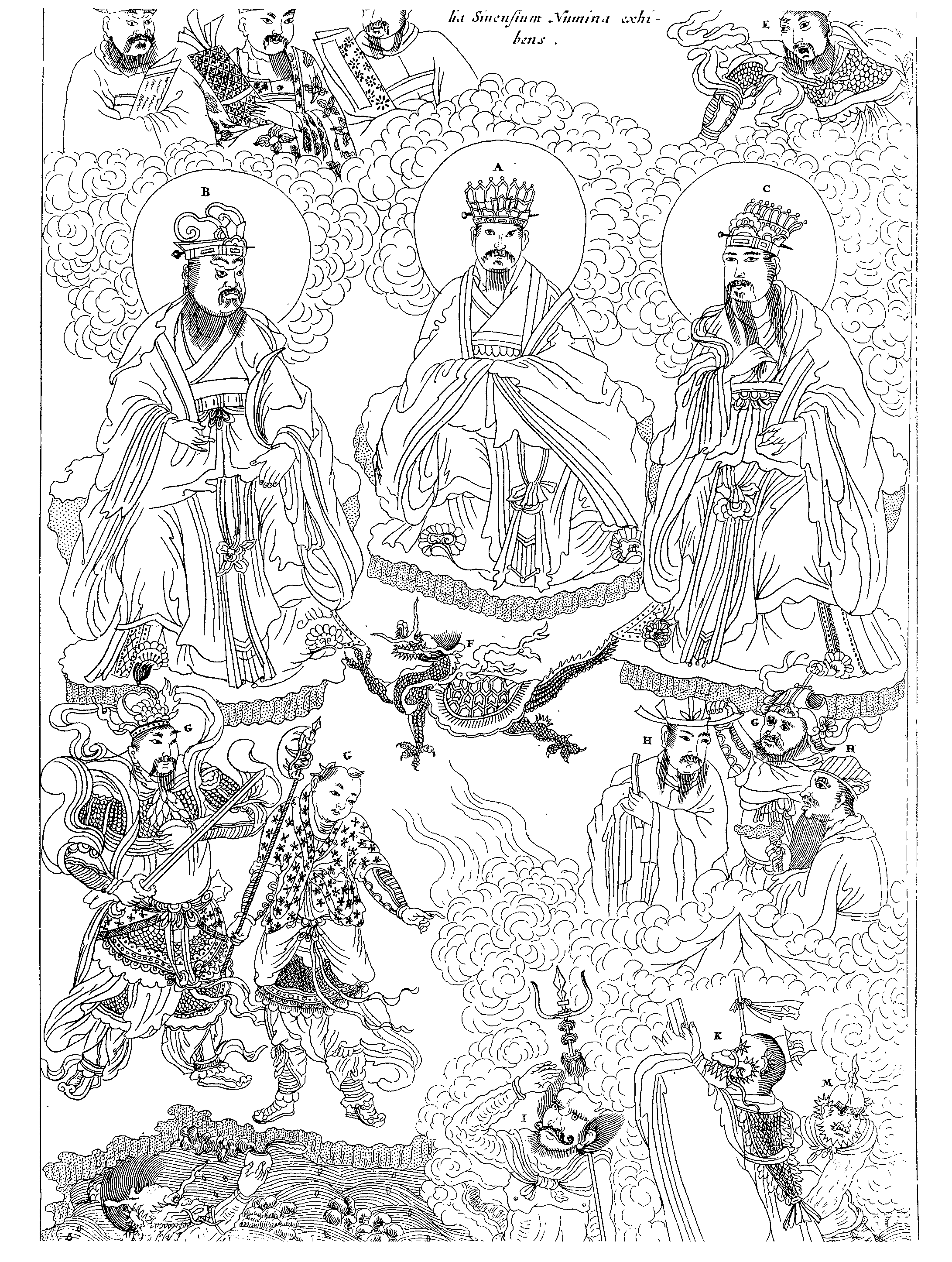 "Principal deities of the Chinese", a Chinese engraving reproduced in Kircher's book (A) Fo (Buddha) (B) Confutius (Confucius) (C) Lauzu (Laozi) ... (F) Dragon with a tortoise shell (A later writer explained this feature by suggesting that it alludes to the mythical animal that revealed the trigrams to Fu Xi; see P. Carus, pp 167-168